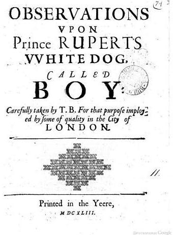 An example of a propaganda pamphlet from 1643 MDCXLIII